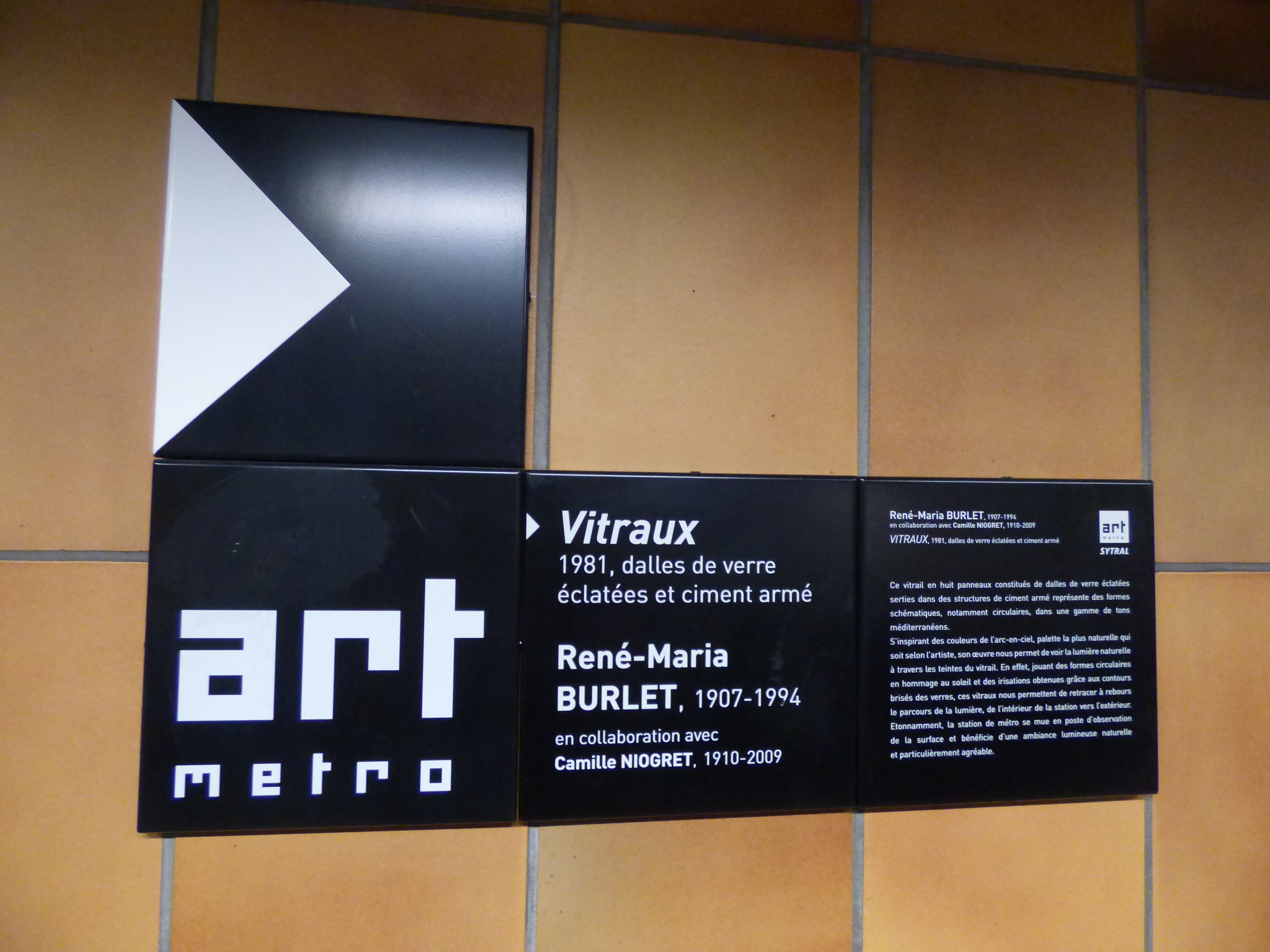 Place Guichard Bourse du Travail - Lyon Metro. We were going to go to the Museum of Fine Arts in Lyon, but the closest subway station to our hotel was below a busy market. On a Sunday morning we were on the wrong platform. We got tickets that could be used within one hour. In the end we walked to the subway station at Place Bellecour and travelled to Hotel de Ville. This underground network is only slightly under the ground not too deep. Place Guichard is on Line B. The Lyon Metro (French: Métro de Lyon) is the metro system of Lyon, France. It first opened in 1978 (although the metro's current Line C opened, independently, earlier, in 1974). The Lyon Metro currently consists of four lines, serving 40 stations (44 when counting transfer stations twice), and comprising 32.0 kilometres (19.9 mi) of route. It is part of the Transports en Commun Lyonnais (TCL) system of public transport, and is supported by Lyon's network of tramways. Unlike all other French metro systems, but like the SNCF and RER, Lyon Metro trains run on the left. This is the result of an unrealised project to run the metro into the suburbs on existing railway lines. The loading gauge for lines A, B, and D is 2.90 m (9 ft 6.2 in), more generous than the average for metros in Europe. The loading gauge for line C is 2.78 m (9 ft 1.4 in). The Lyon Metro owes its inspiration to the Montreal Metro which was built a few years prior, and has similar (wider) rubber-wheel cars and station design. The metro had 740,000 daily weekday boardings in 2011. Art Metro - Vitraux, 1981 by René-Maria Burlet, 1907-1994.